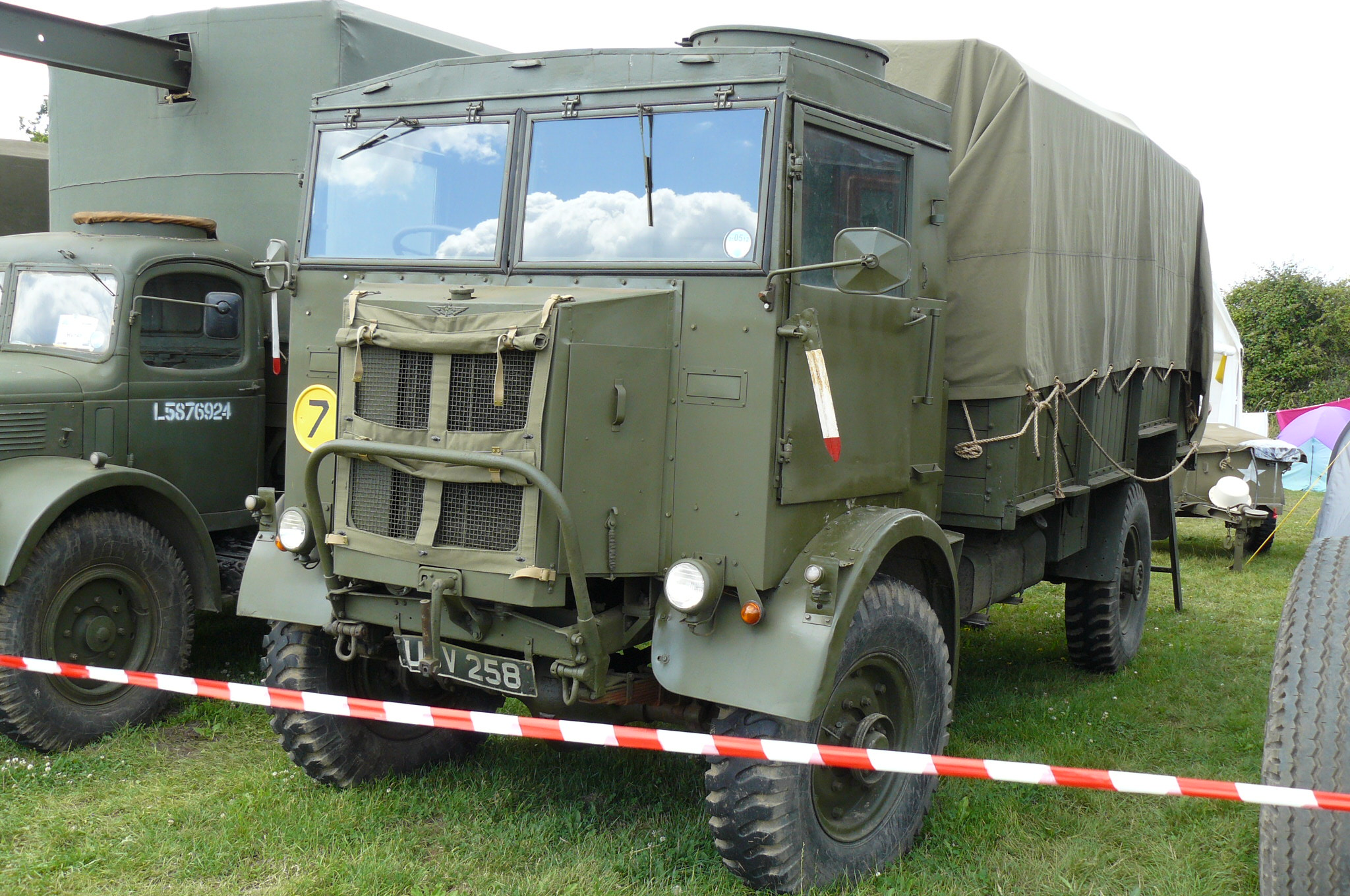 Austin K5, general cargo lorry, seen at War and Peace show 2011, UK